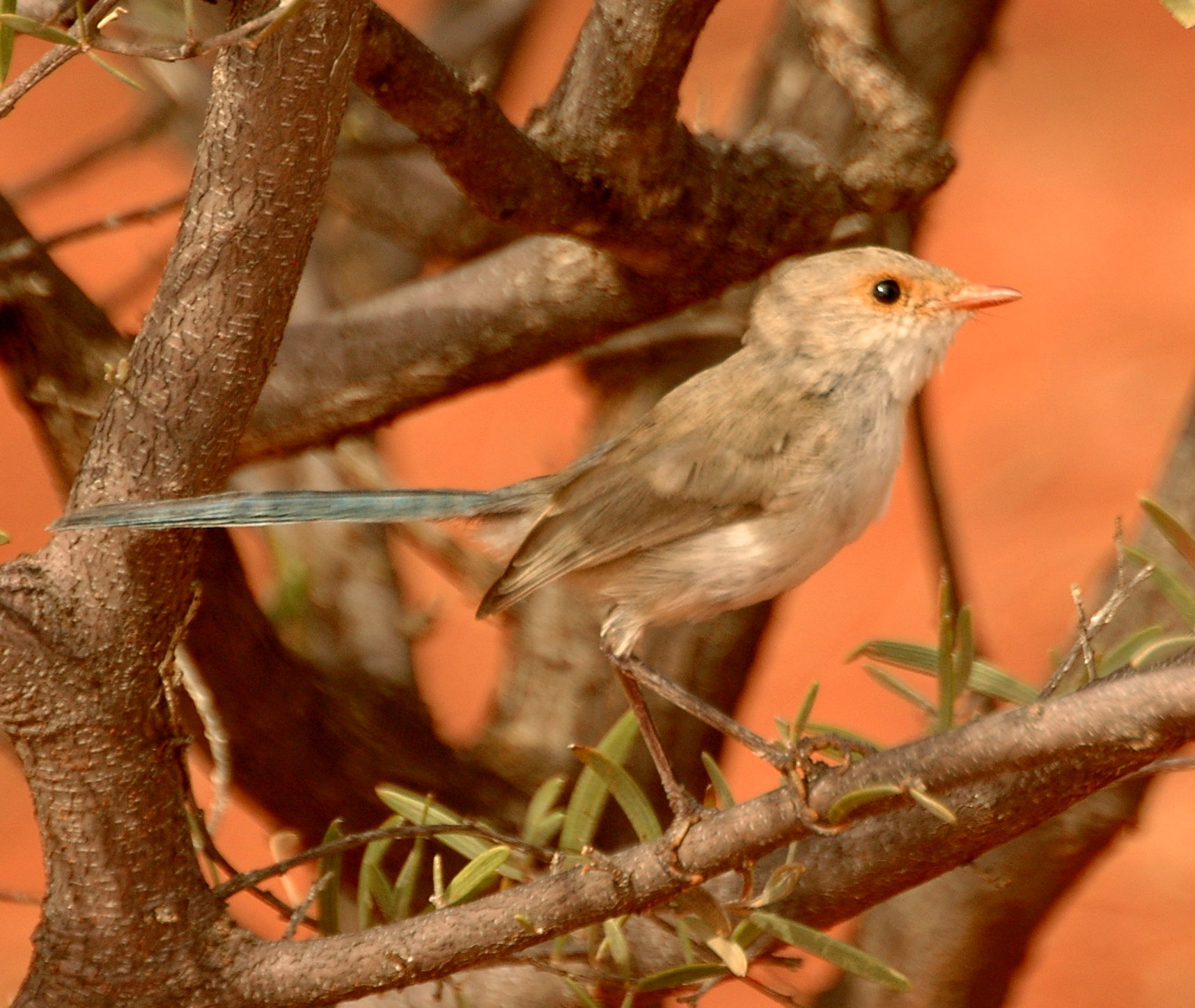 Splendid Fairy-wren (Malurus splendens) Female, Cunnamulla, SW Queensland